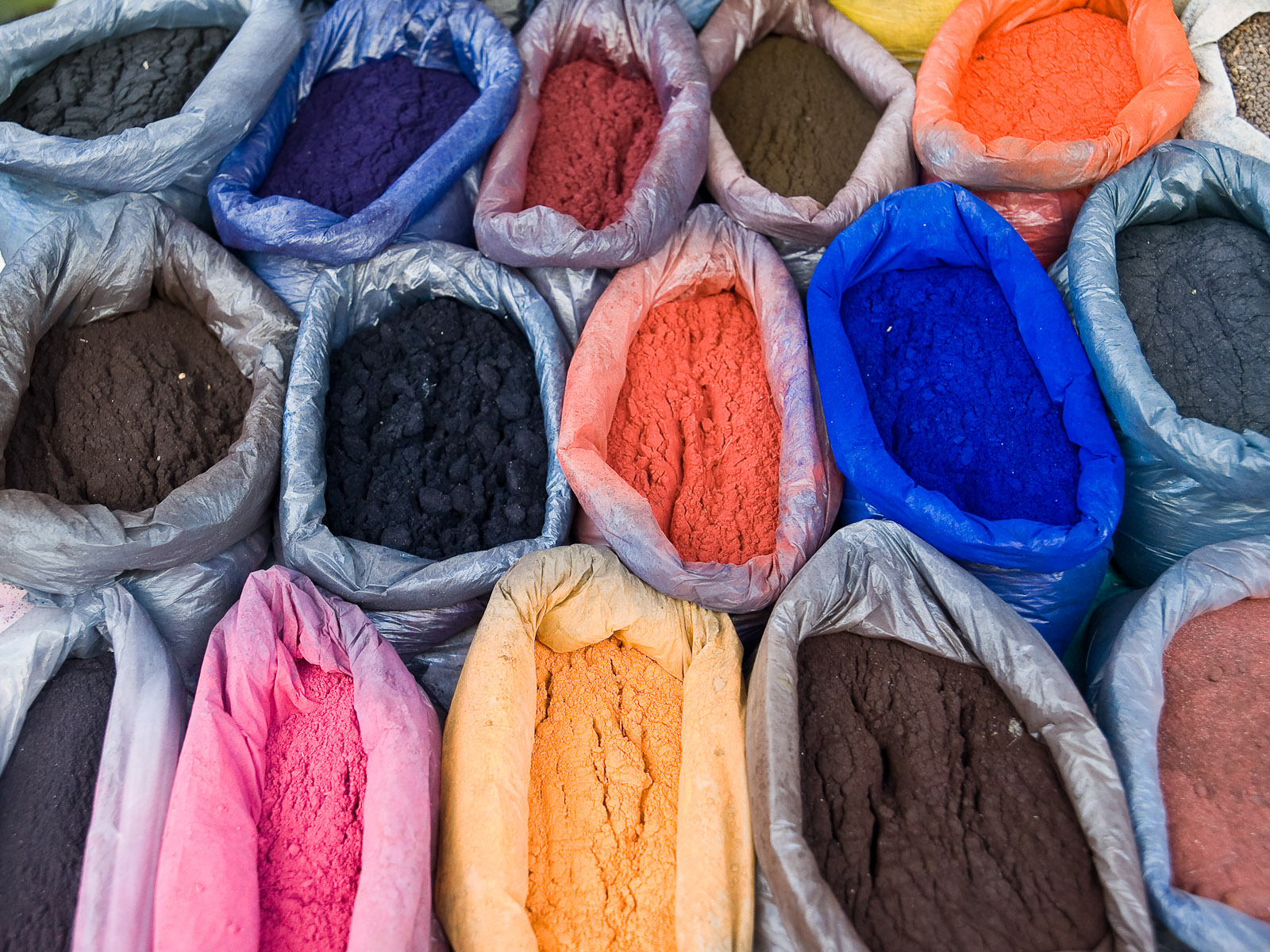 Dyes at a market in Osh